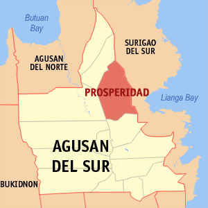 Map of the Agusan del Sur showing the location of Prosperidad